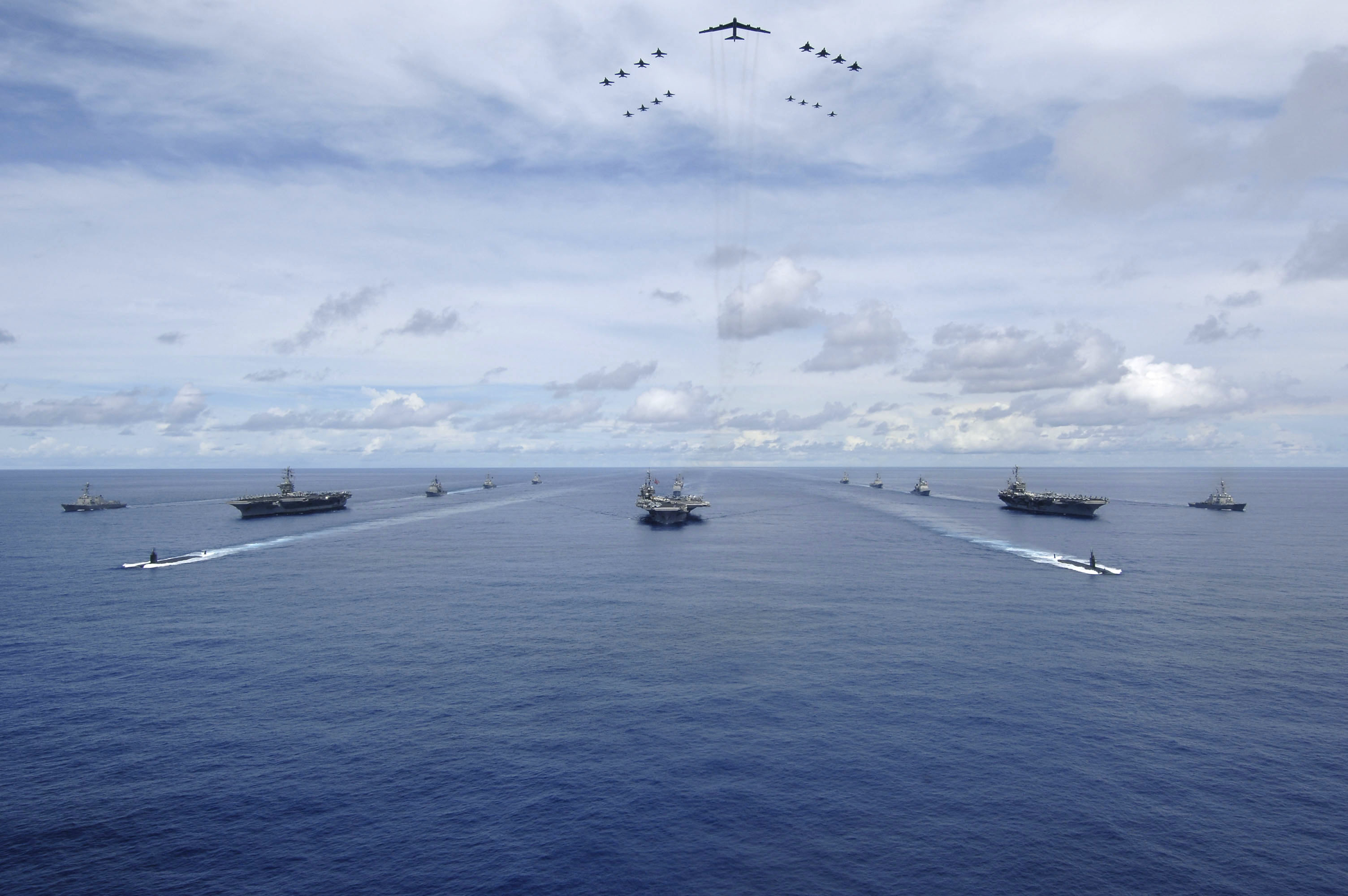 PACIFIC OCEAN (Aug.14, 2007) - USS Nimitz (CVN 68), USS Kitty Hawk (CV 63) and USS John C. Stennis (CVN 74) Carrier Strike Groups transit in formation during a joint photo exercise (PHOTOEX) during exercise Valiant Shield 2007. The aerial formation consists of aircraft from the carrier strike groups as well as Air Force aircraft. The strike groups are participating in Valiant Shield 2007, the largest joint exercise in the Pacific this year. Held in the Guam operating area, the exercise includes 30 ships, more than 280 aircraft and more than 20,000 service members from the Navy, Air Force, Marine Corps, and Coast Guard. U.S. Navy photo by Mass Communication Specialist Seaman Stephen W. Rowe (RELEASED)